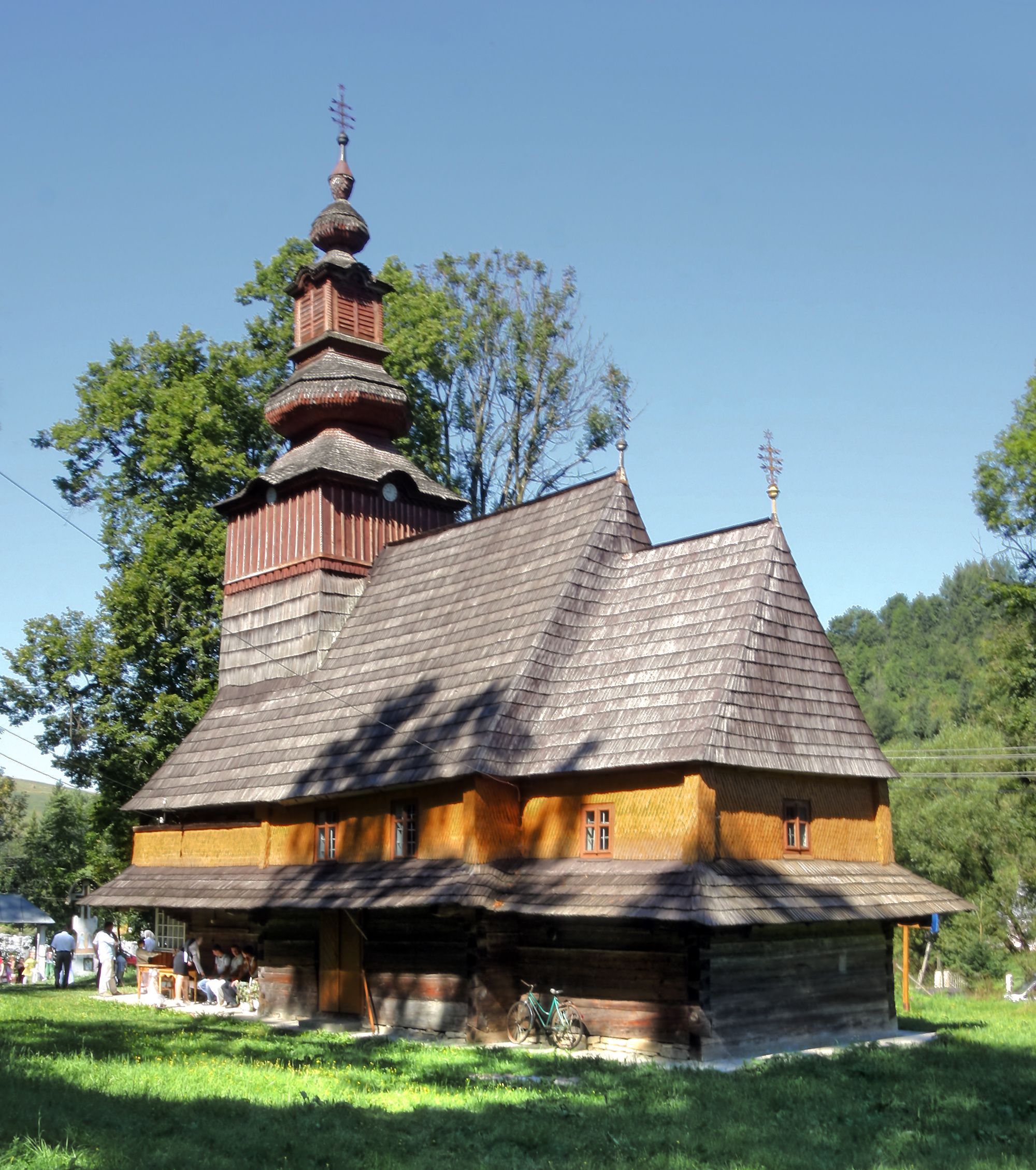 Church Nativity of the Theotokos (Birth of Mary), Pylypets Mizhhiria Raion, Zakarpattia Oblast, Ukraine